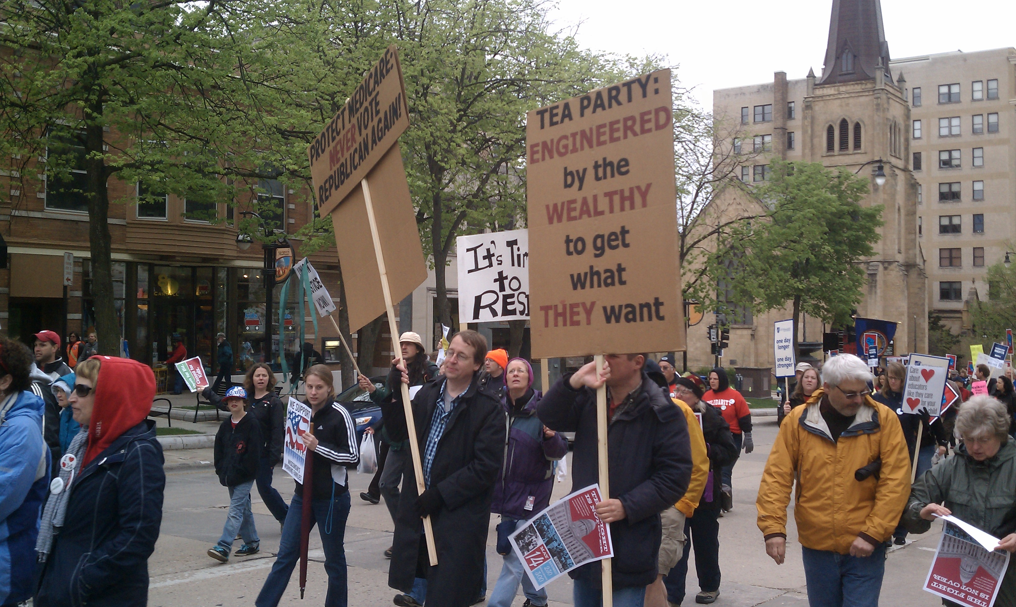 Day 90; Wisconsin Protests: Tens Of Thousands Turn Out In Madison Against Anti-Union Proposal, Tea Party and Walker